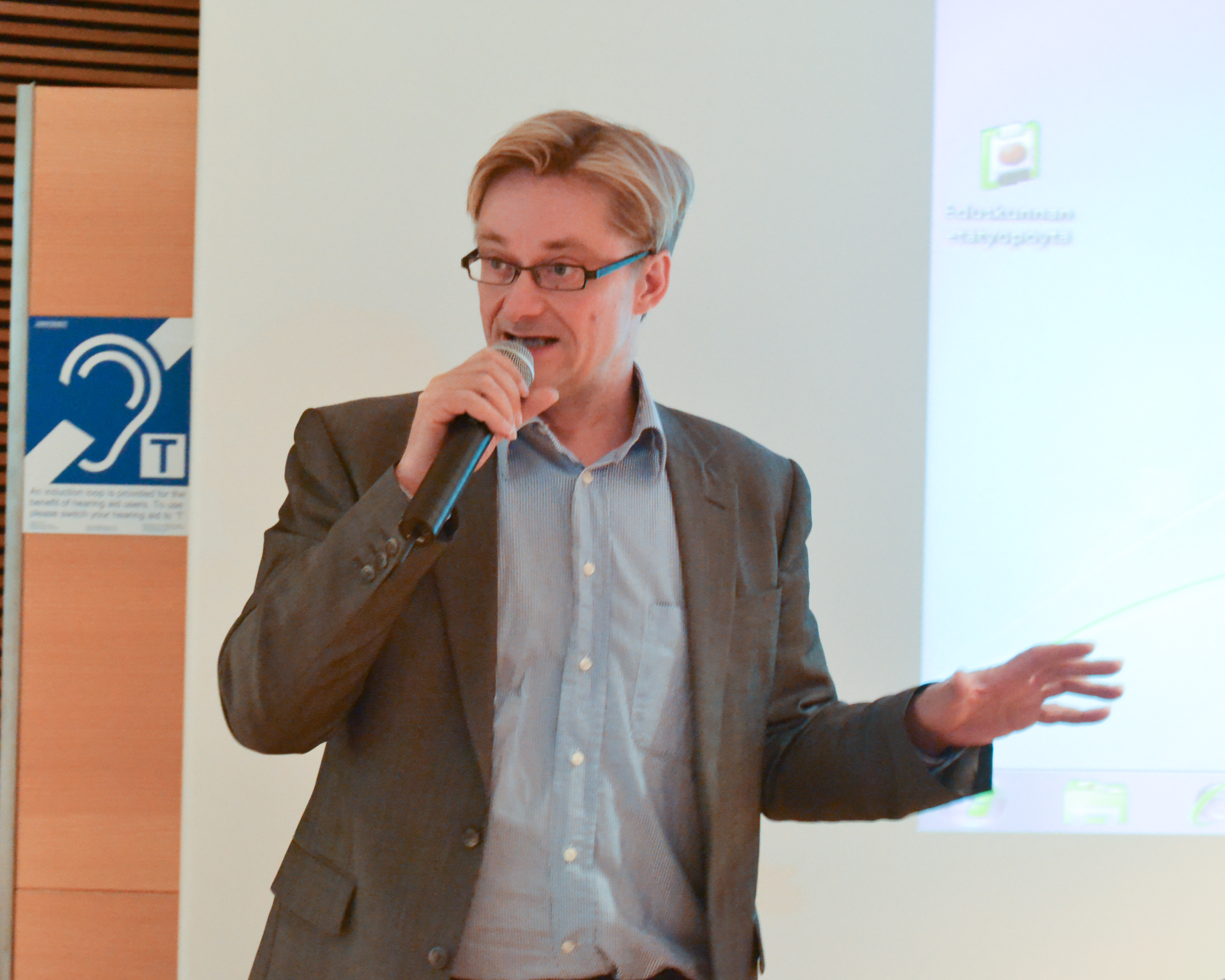 Mikael Jungner. Avoin keskustelutilaisuus Eduskunnassa 9. maaliskuuta 2012 "Mistä ACTA-sopimuksessa on kyse?" Järjestäjänä SDP.